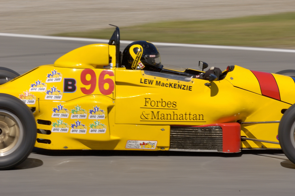 Major-General (Ret) Lewis MacKenzie driving a Formula Ford car at Circuit Gilles Villeneuve on August 28, 2009 as part of the NASCAR NAPA 200 weekend.